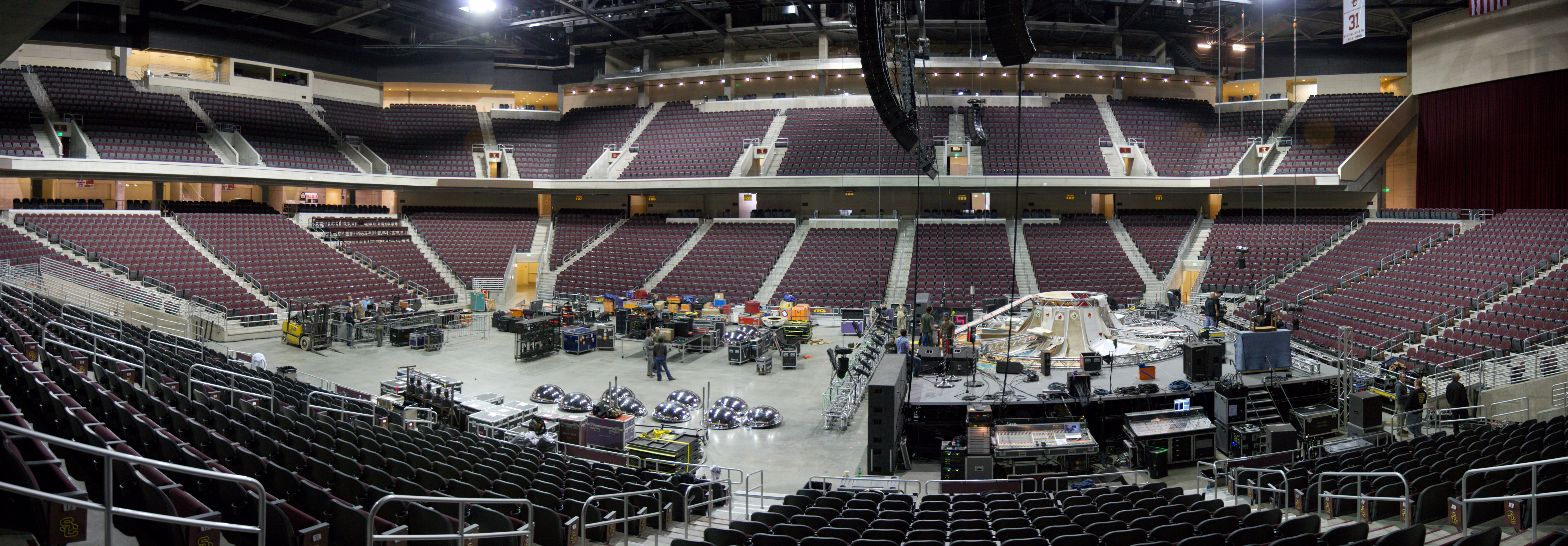 USC Galen Center arena, Los Angeles, CA - panorama of inside (during Flaming Lips load in)